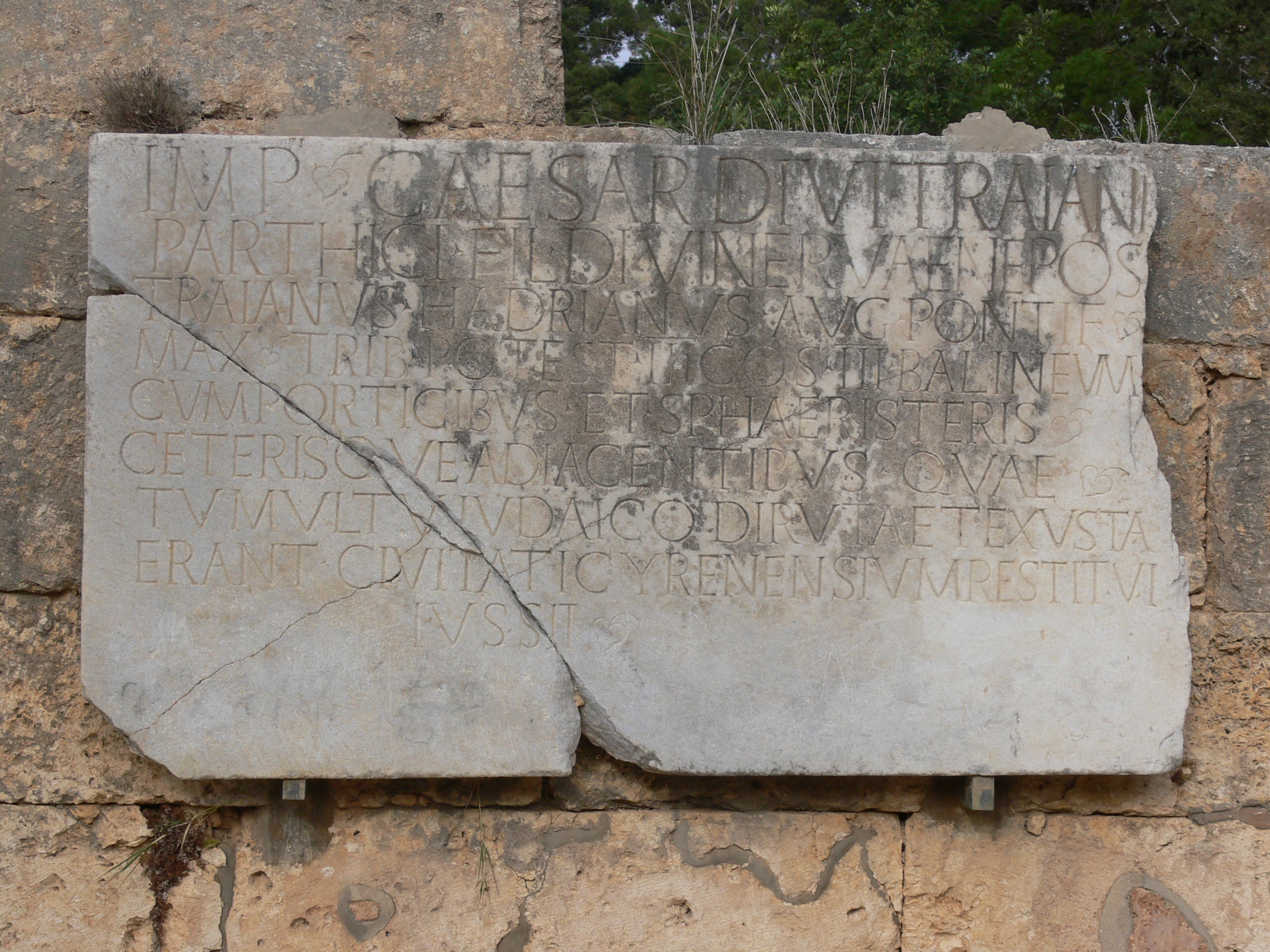 Hadrian inscription at the thermae of Cyrene (Libya)